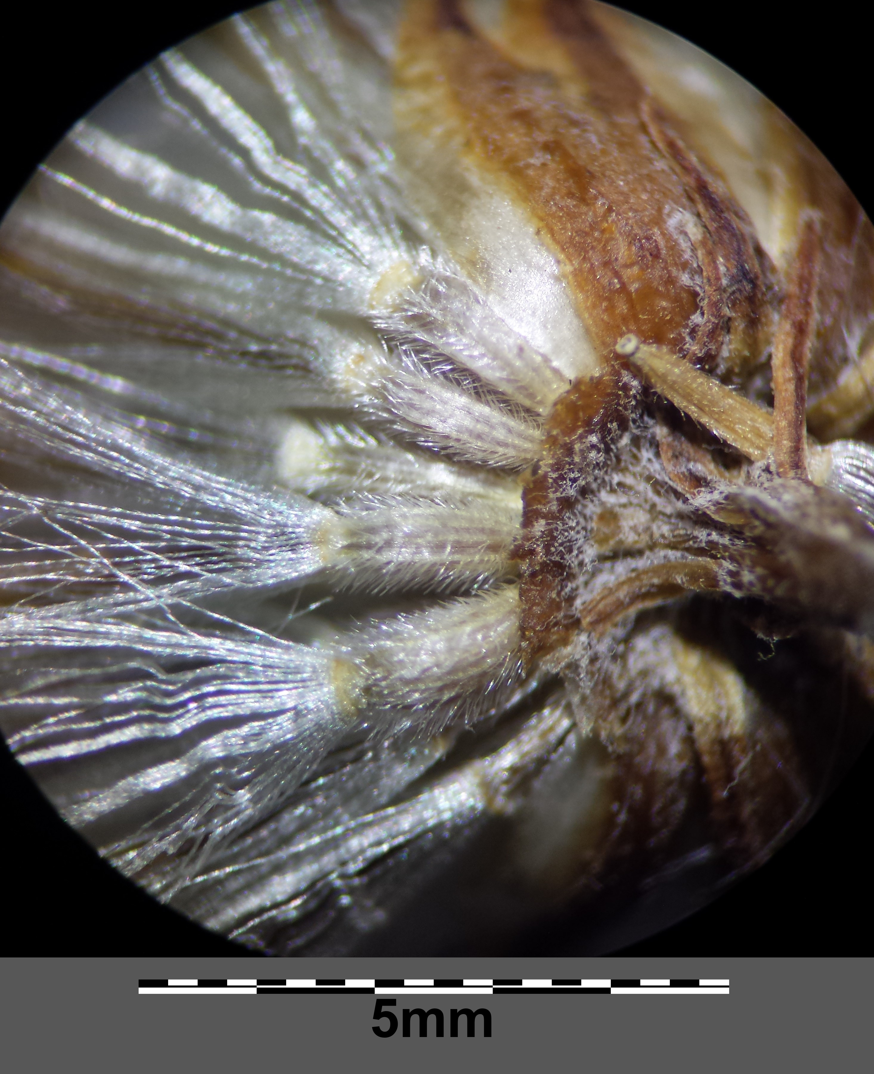 Flower basket with fruits Taxonym: Senecio erucifolius ss Fischer et al. EfÖLS 2008 ISBN 978-3-85474-187-9 Location: next to Dernberg, Nappersdorf-Kammersdorf, district Hollabrunn, Lower Austria - ca. 260 m ü. A. Habitat: semi-dry grassland